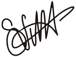 Sebastian Vettel's signature